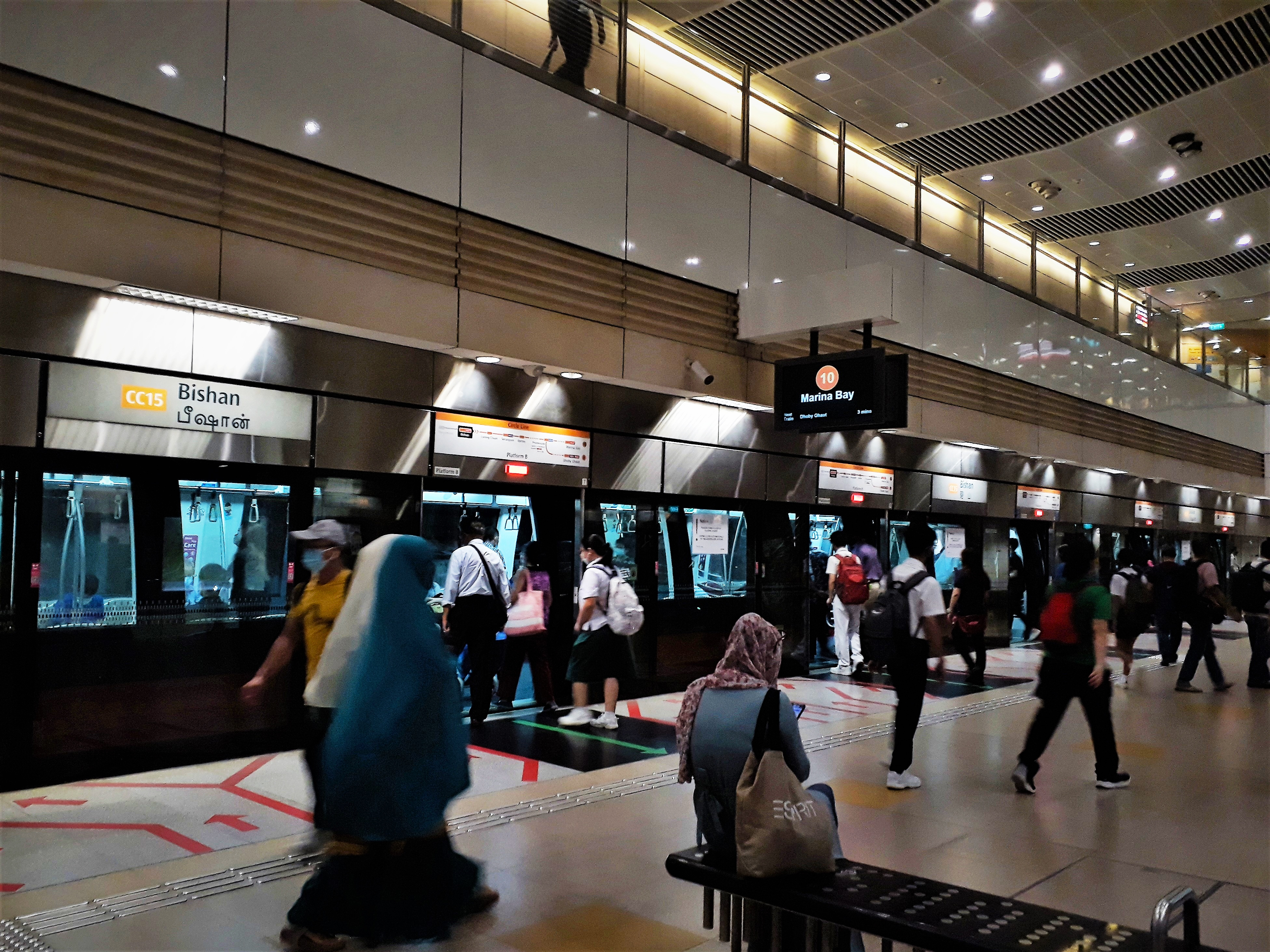 Bishan MRT